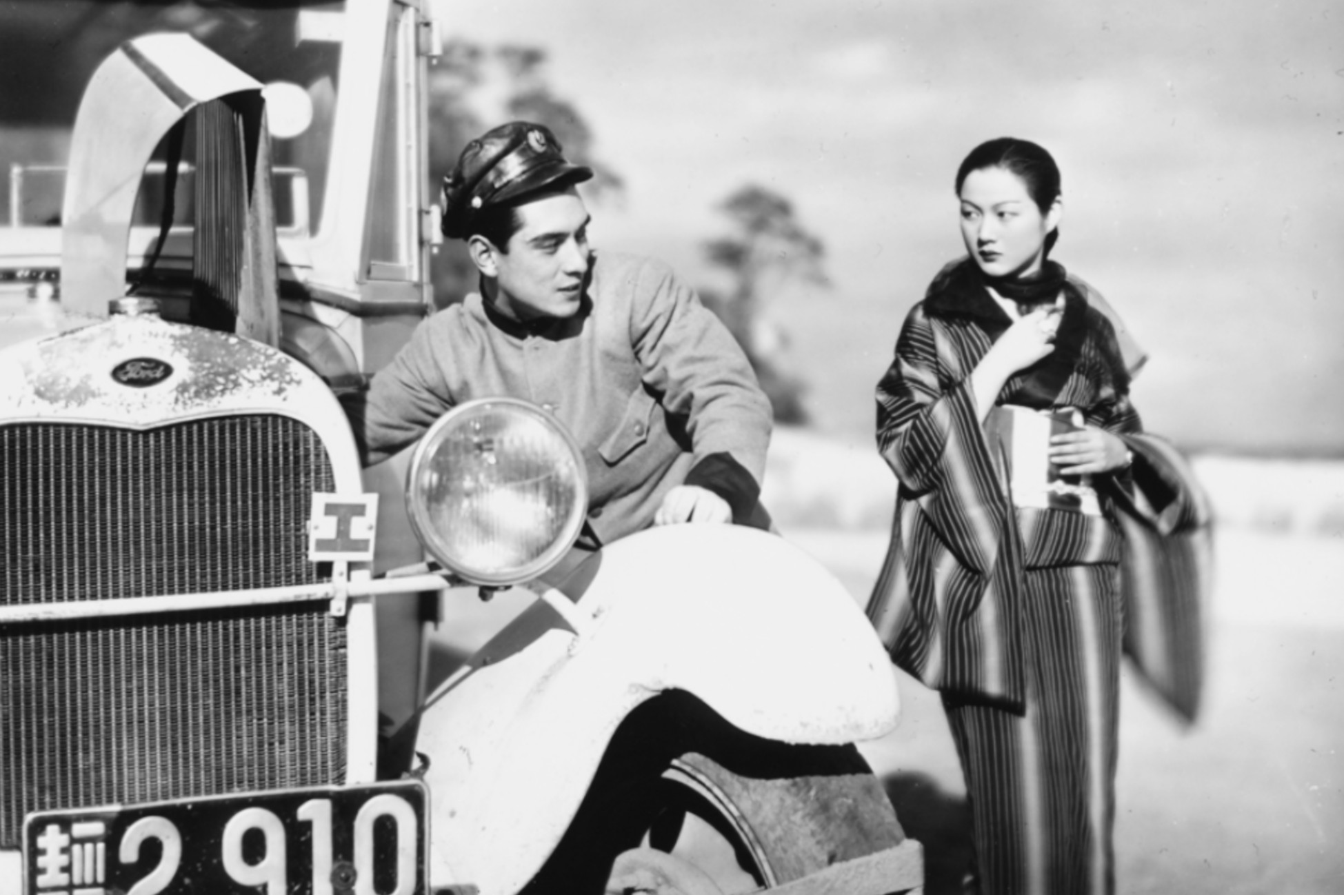 Ken Uehara and Michiko Kuwano in Arigato-san (1936)